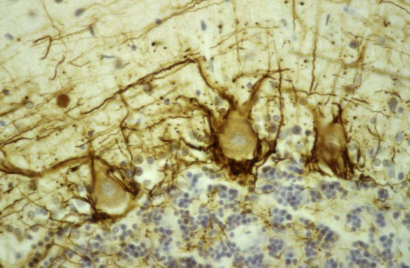 Antibody staining of human cerebellum with an antibody to the phosphorylated form of the heavy or high molecular weight neurofilament subunit NF-H. This protein is found in axons of basket cells which seen surrounding the large Purkinje cells. Antibody and image generated by EnCor Biotechnology Inc.